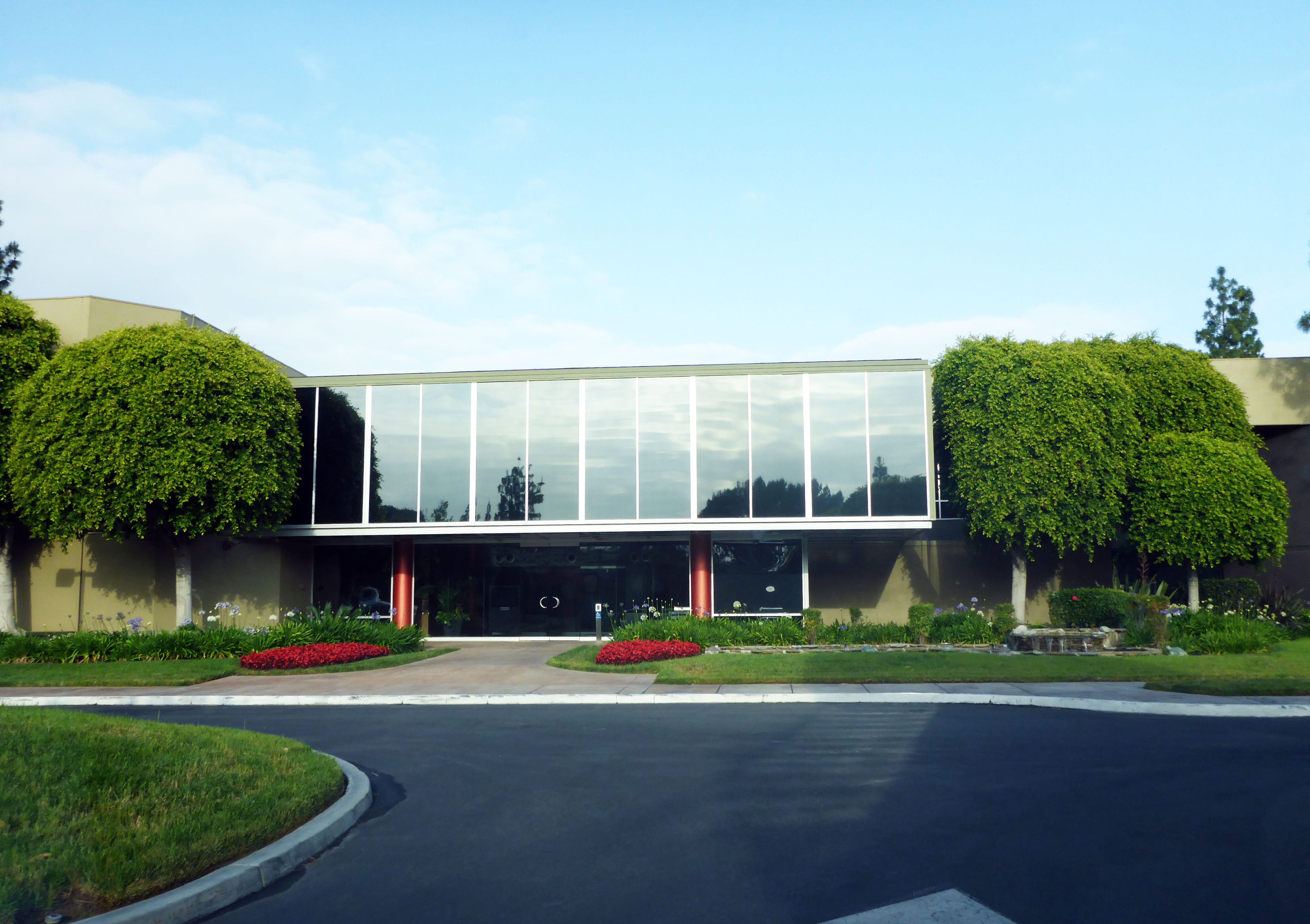 Panda Restaurant Group headquarters in Rosemead, California. Photographed by user Coolcaesar on May 9, 2015.